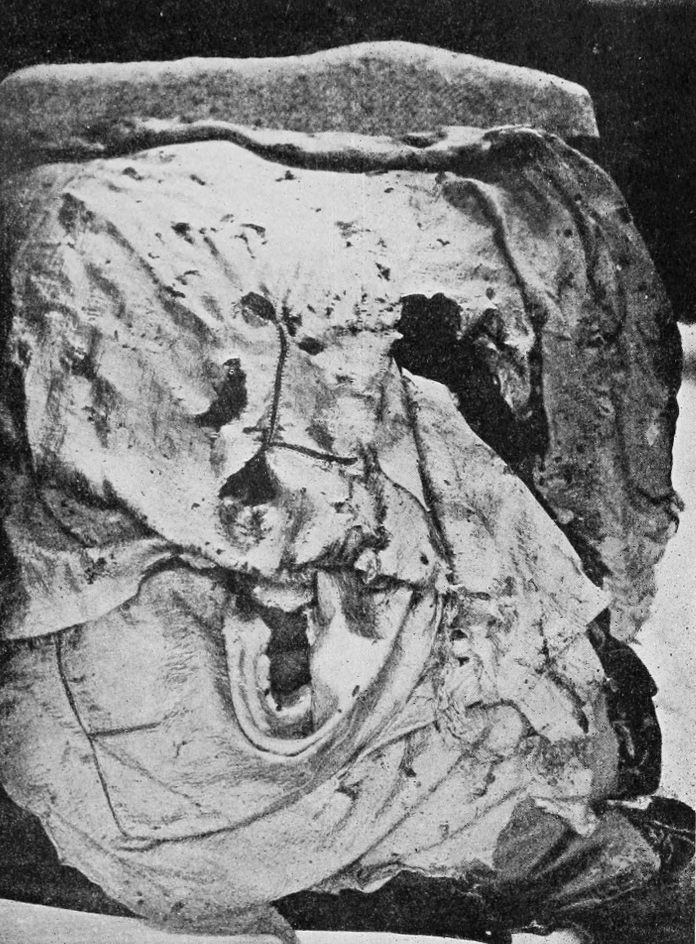 Photograph of the Fairy Flag, kept at Dunvegan Castle.